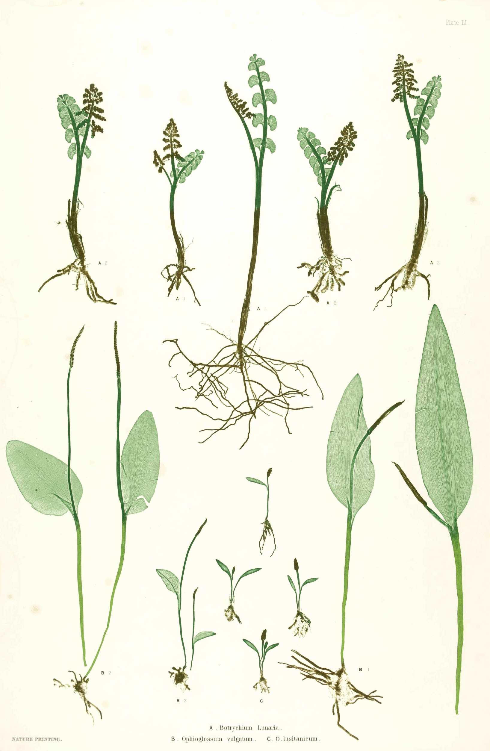 Plate from book